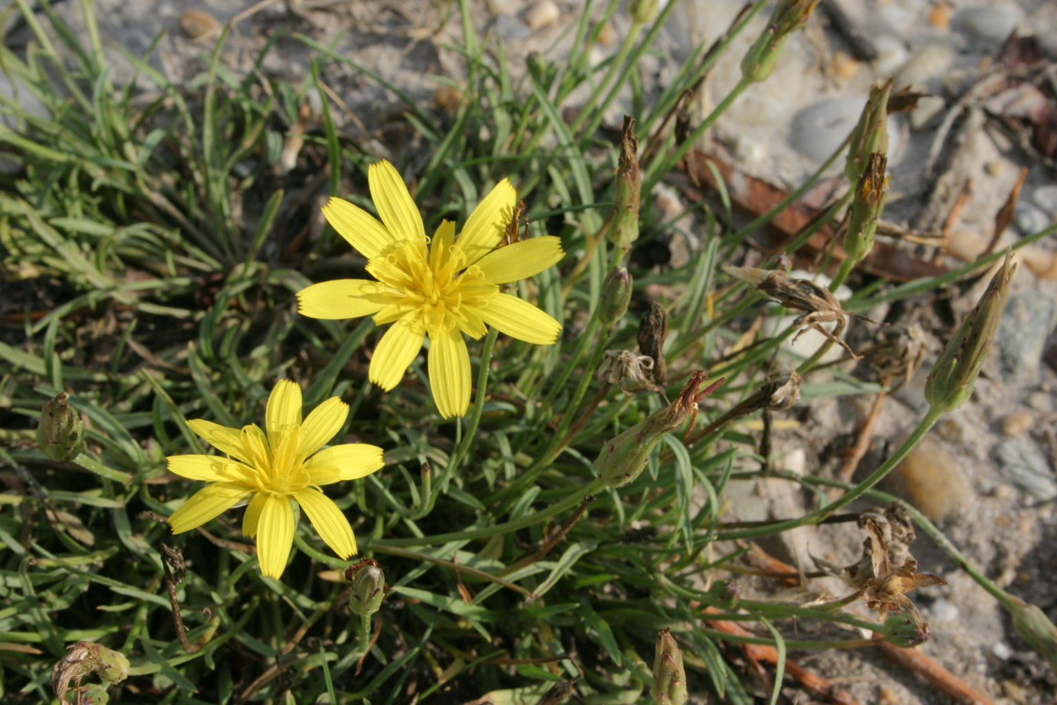 Scorzonera cana